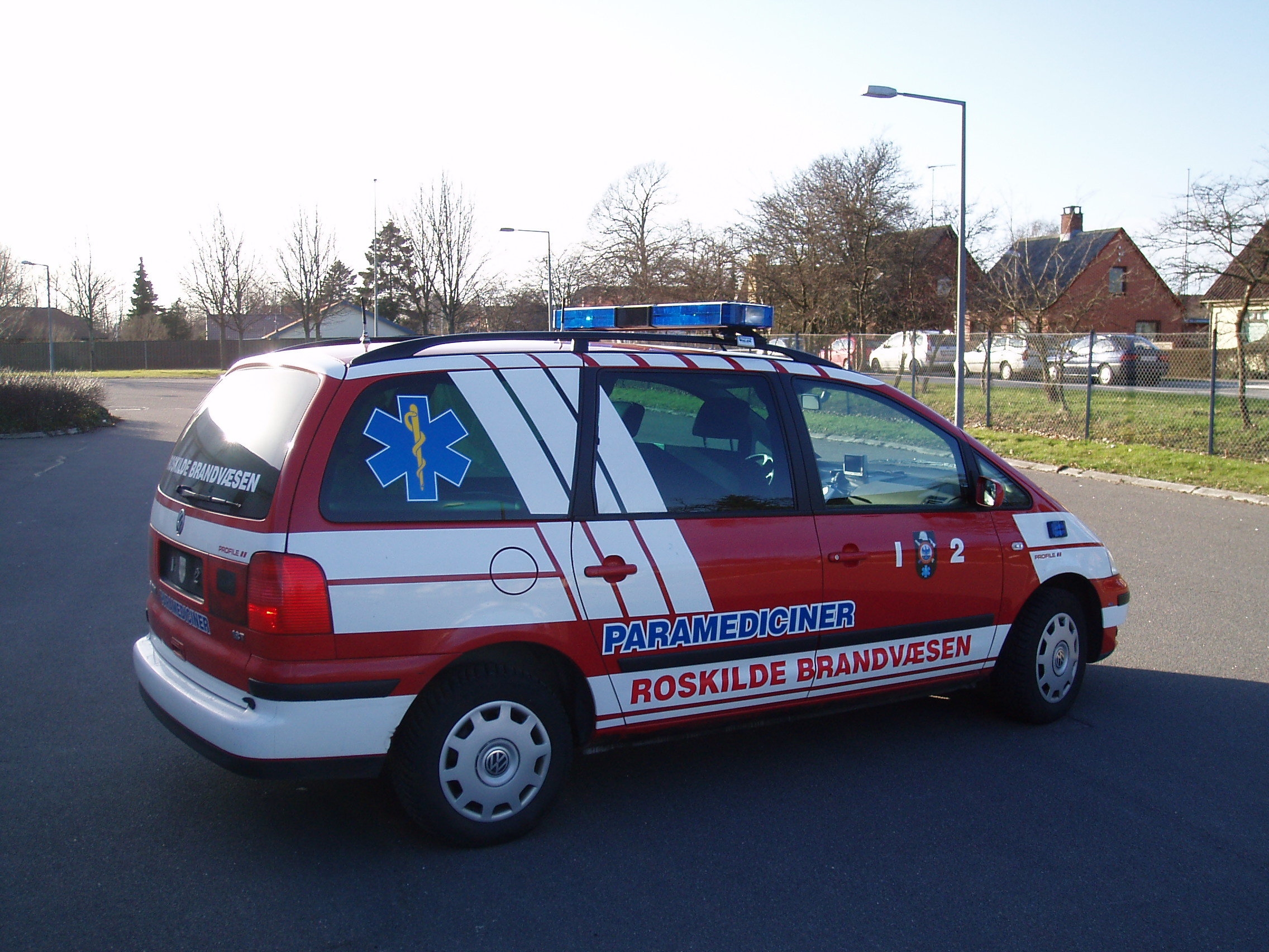 VW Sharan paramedic unit of Roskilde Fire Brigade. The vehicle is manned with one paramedic and assists ambulances upon requests and responds to traffic accidents or structure fires with multiple victims.